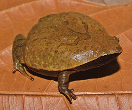 Anurans from the RPPN Serra Bonita, Bahia State, Northeastern Brazil. a Physalaemus camacan b P. erikae c Chiasmocleis crucis d Stereocyclops histrio e Stereocyclops incrassatus f Odontophrynus carvalhoi g Proceratophrys renalis h P. schirchi and i Siphonops annulatus.